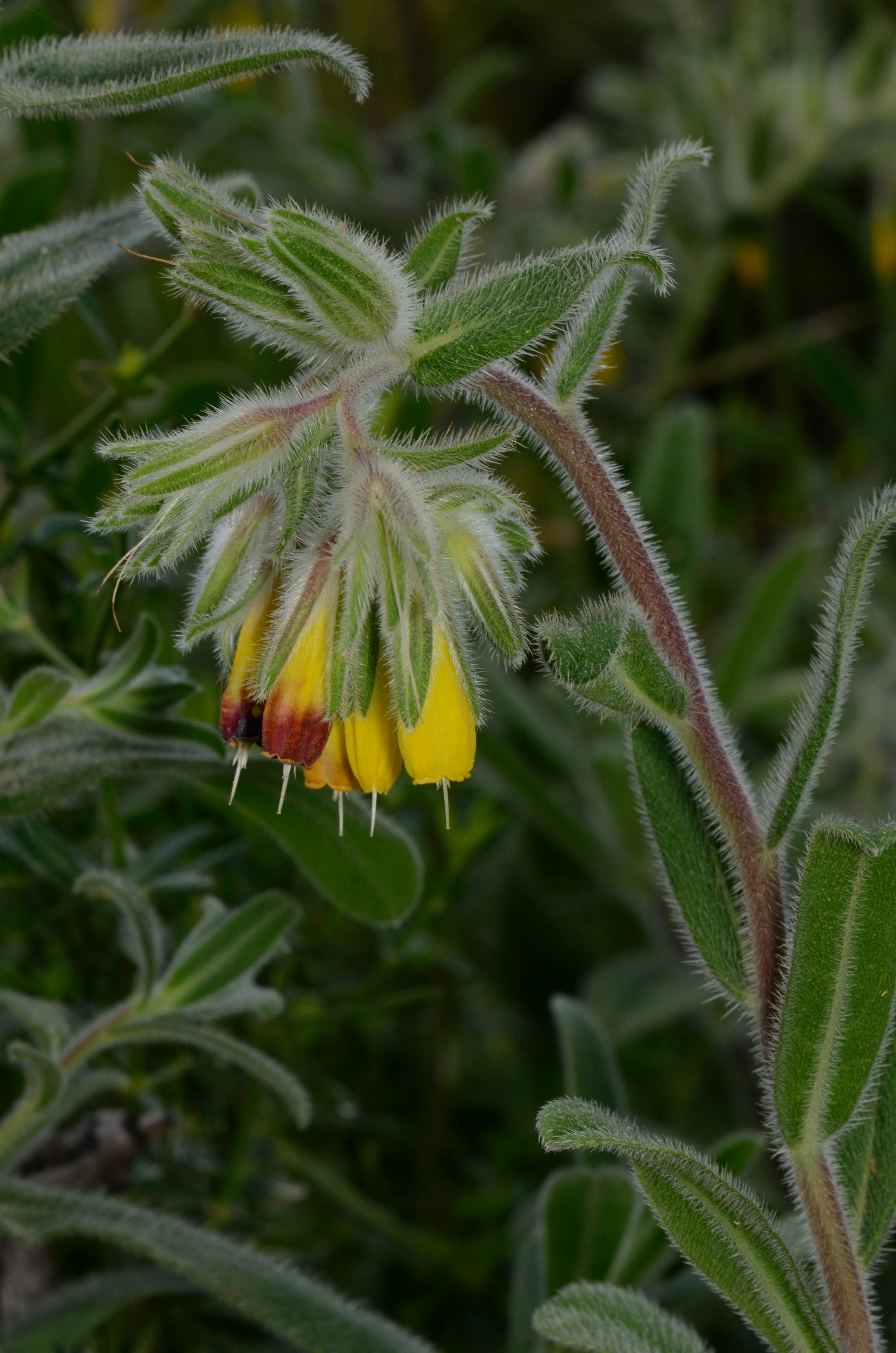 Onosma frutescens Lam., Mount Carmel, Israel, March 30, 2013.